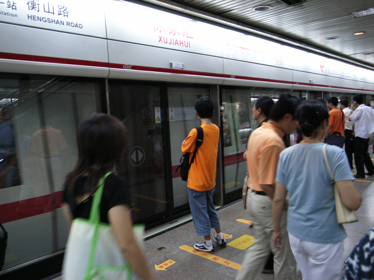 The Xujiahui Metro station with a train at the platform and passengers about to board.